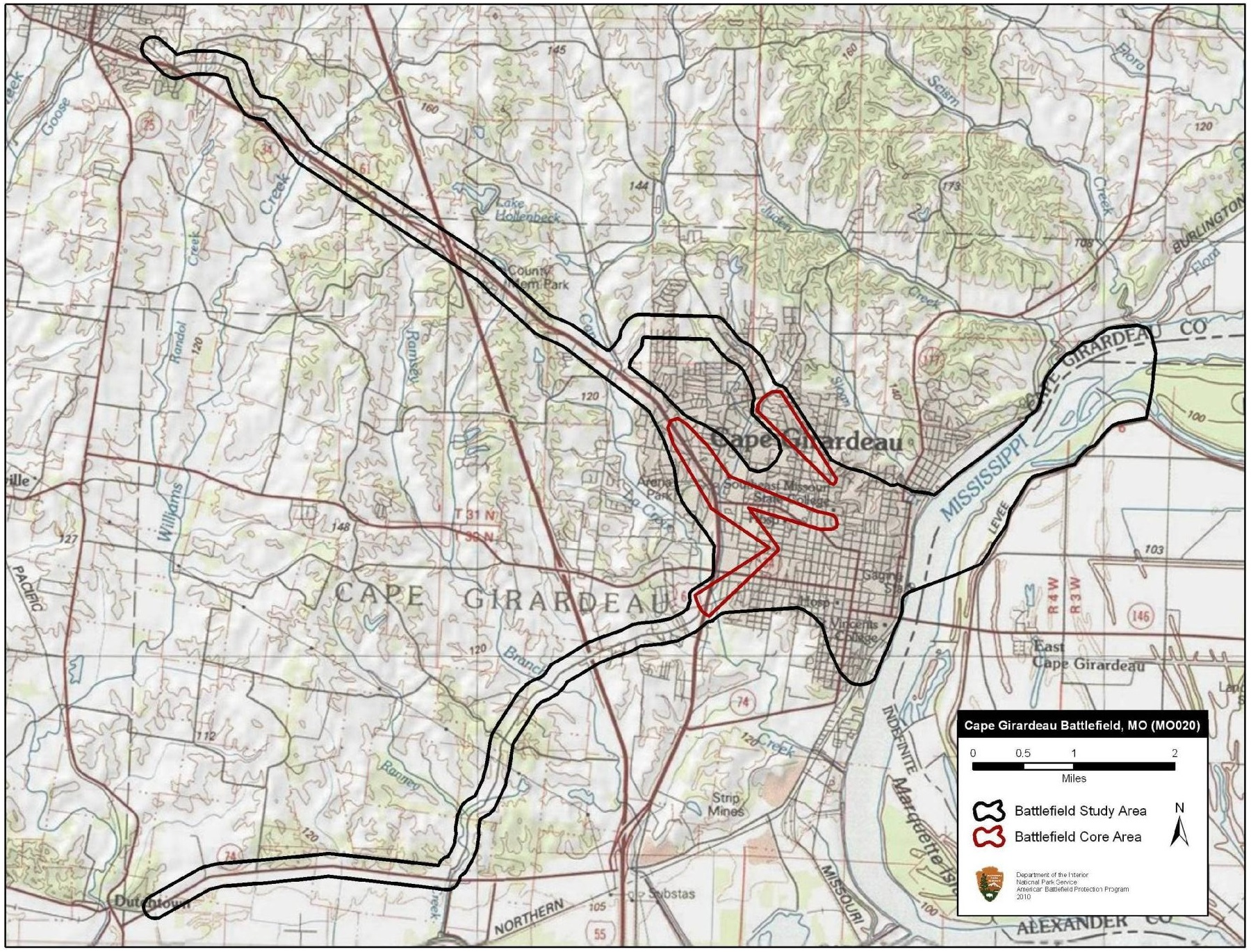 Map of battlefield core and study areas. The revised 1993 Study Area includes the approach route of Union reenforcements traveling along the Mississippi River and the Confederate approach routes along the Jackson, Perryville, and Bloomfield Roads. The exact route of the Confederate retreat from Jackson Road towards Bloomfield is not known and, for that reason, was not added. The ABPP reduced the 1993 Core Area boundary to areas of skirmishing on Jackson Road and the fields of fire of the multiple batteries engaged.